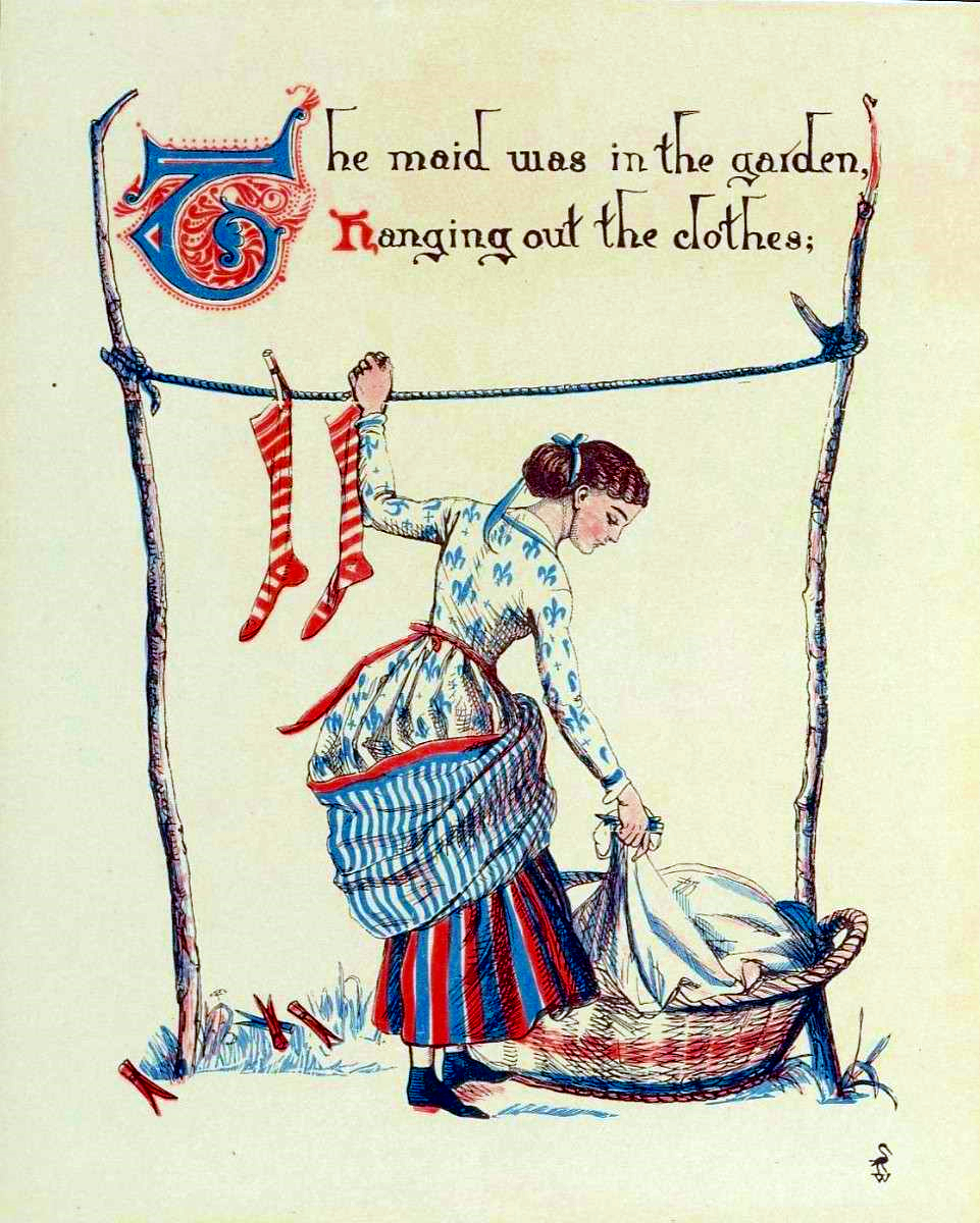 The maid was in the garden hanging out the clothes